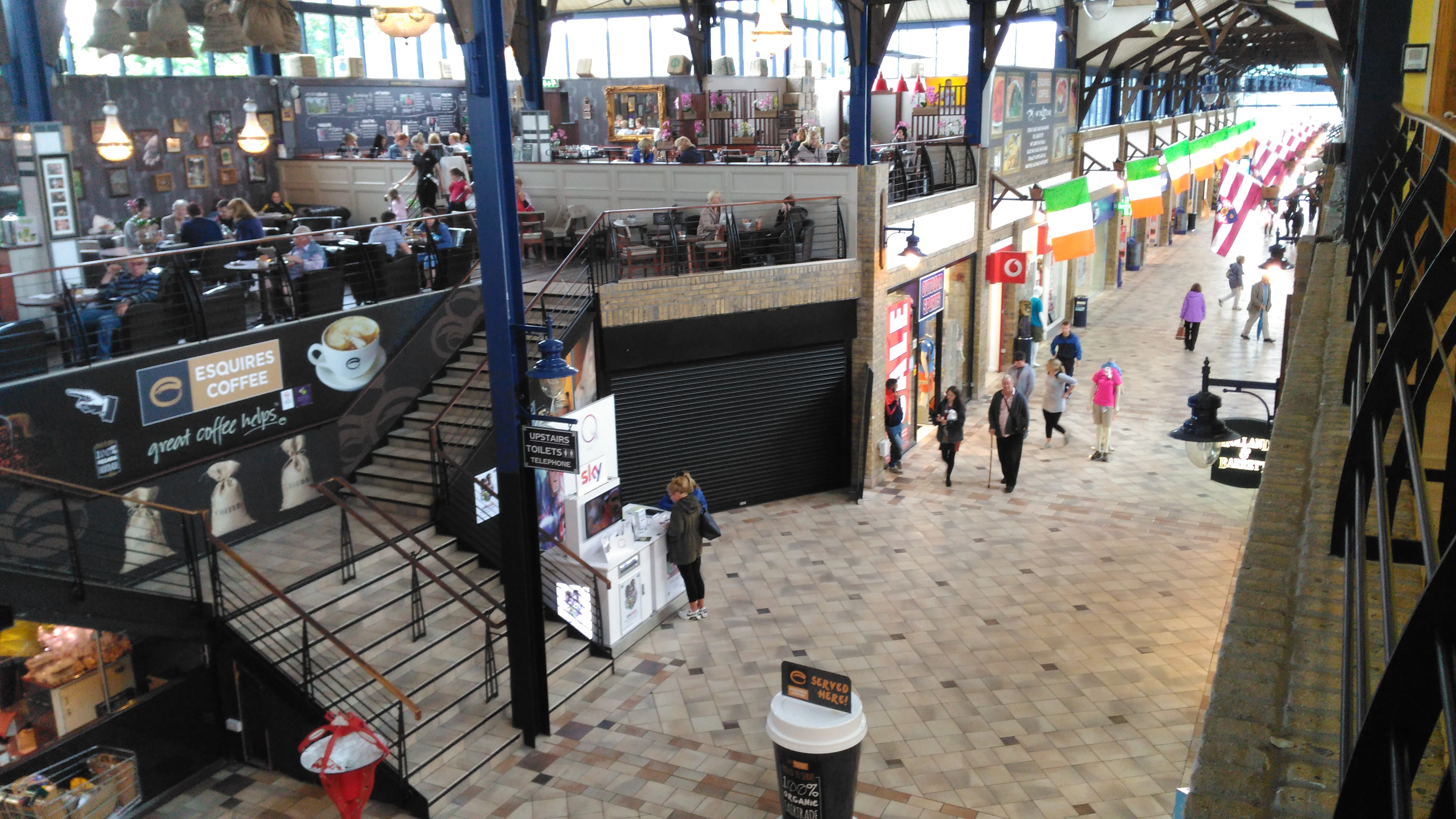 This is a photo of the interior of the Harbour Place Shopping Centre which is located in Mullingar, Co. Westmeath, Ireland.